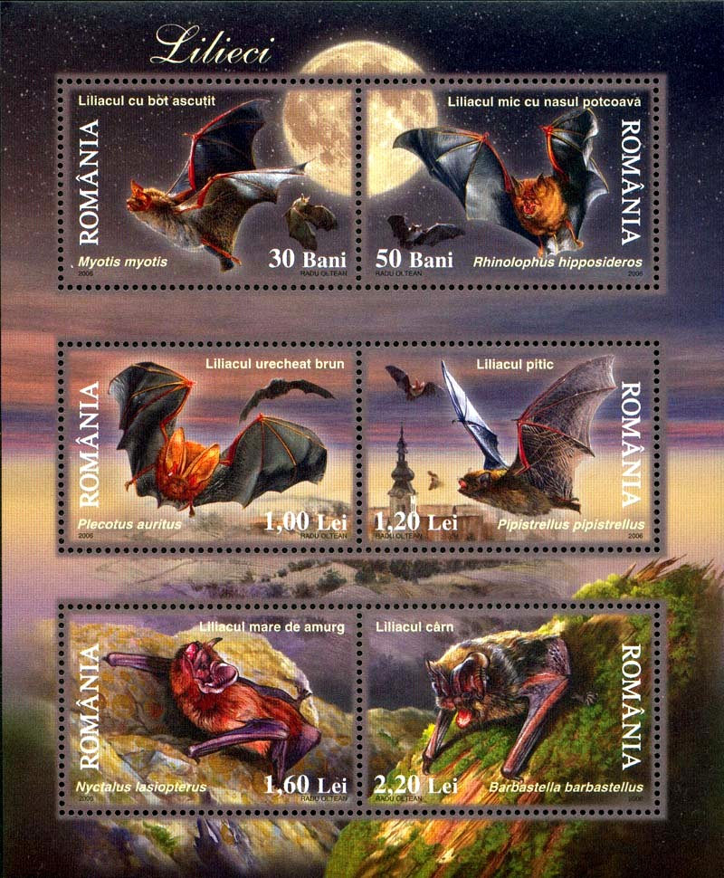 The bats are (from top to bottom and left to right): Greater mouse-eared bat (Myotis myotis) Lesser horseshoe bat (Rhinolophus hipposideros) Brown long-eared bat (Plecotus auritus) Common pipistrelle (Pipistrellus pipistrellus) Greater noctule bat (Nyctalus lasiopterus) Barbastelle (Barbastella barbastellus). Romania stamp.